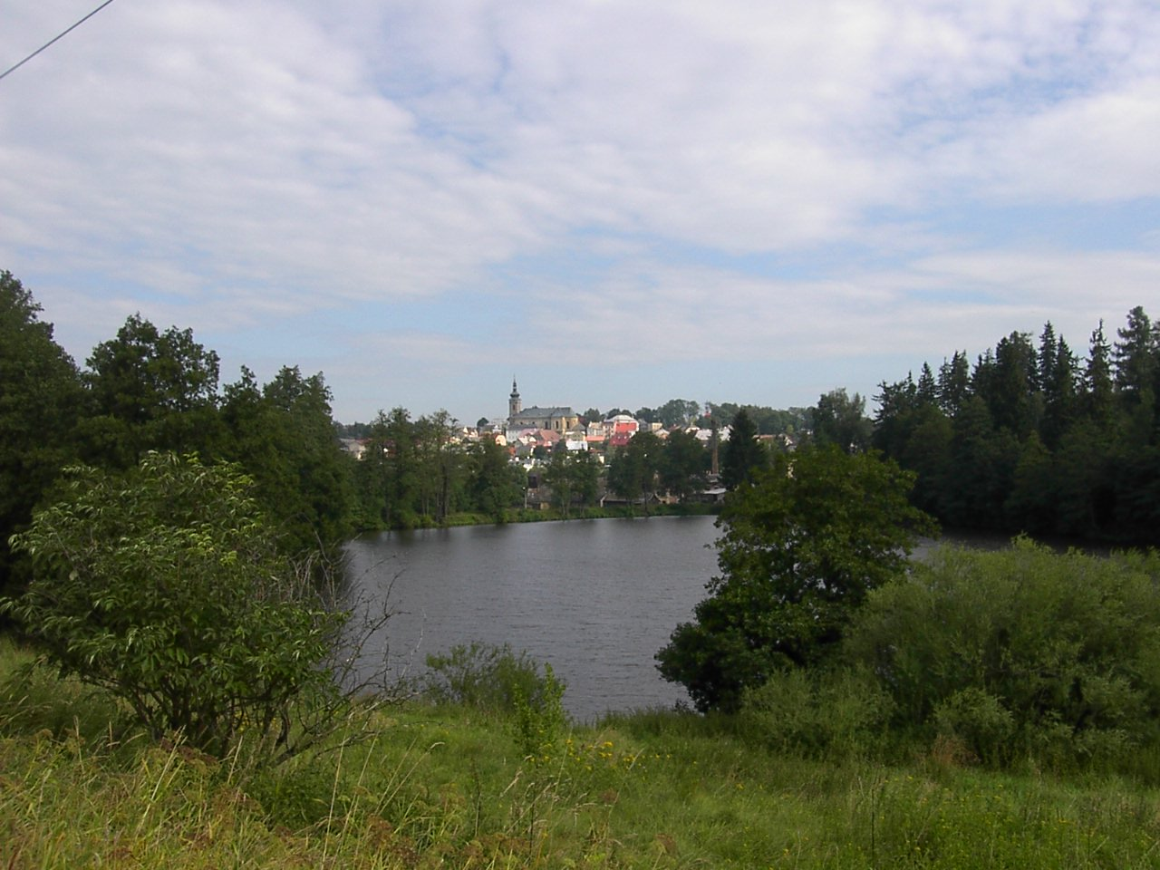 View of city Teplá, Czech Republic